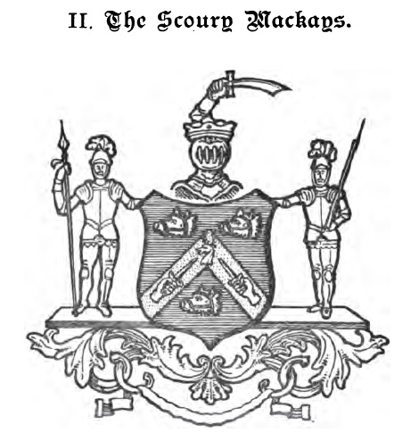 Official coat of arms of the Mackay of Scoury family who were a noble Scottish family. This image is taken from the Book of Mackay published in 1906 so it is out of the 100 year copyright period.